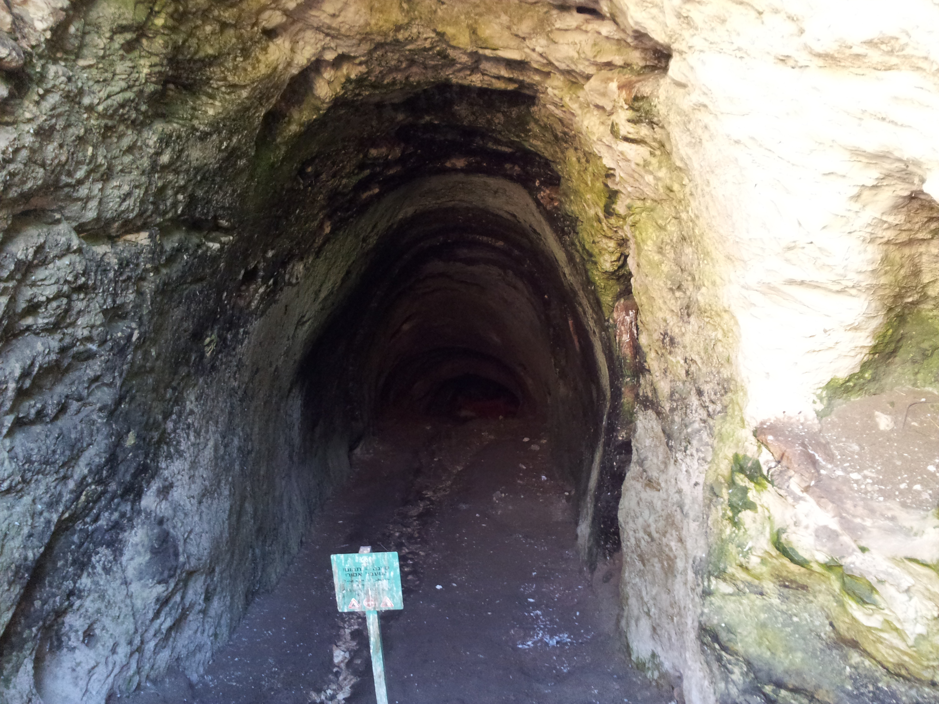 Tel Gezer Water suppy plant